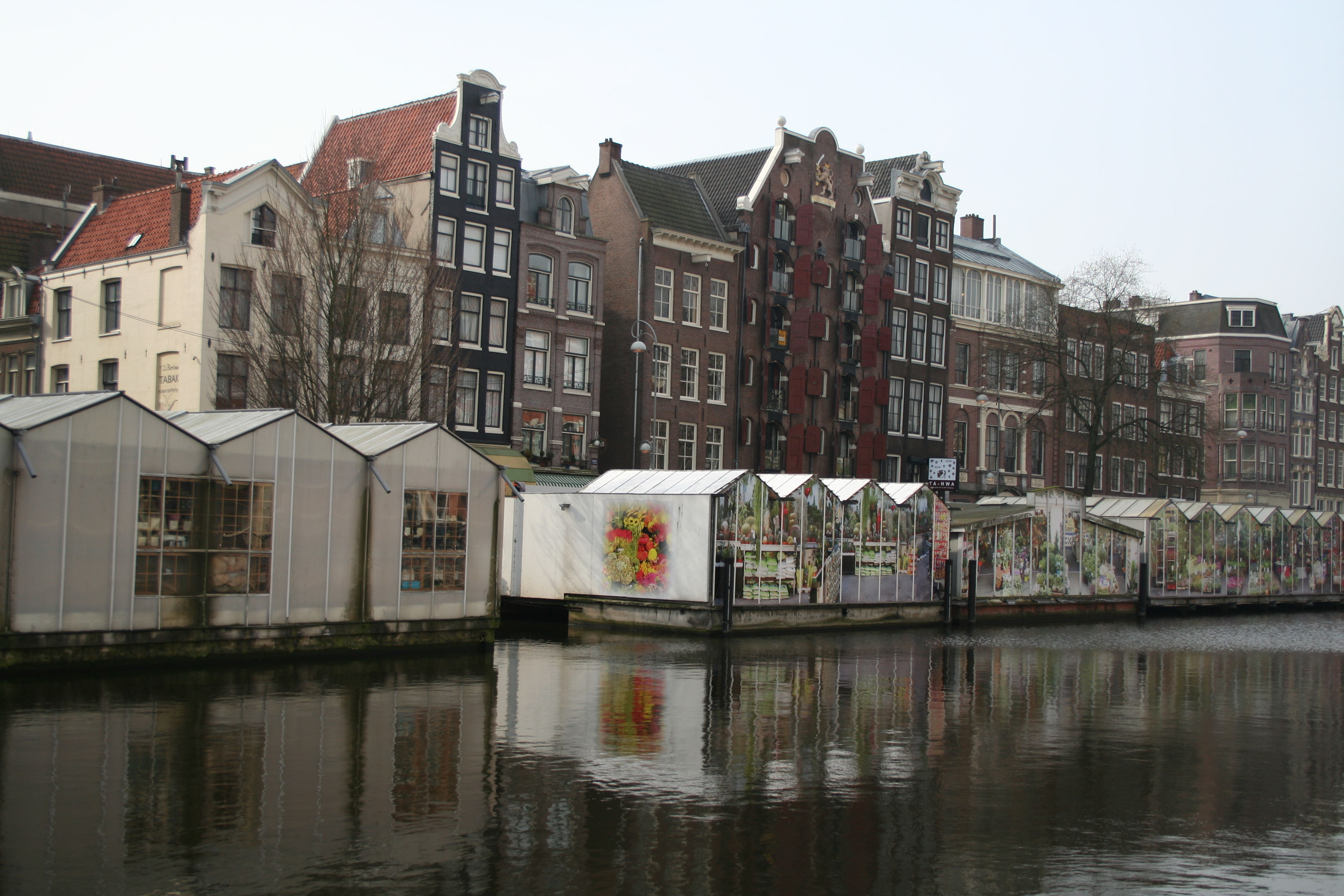 A photograph taken of the Singel with the flower market in Amsterdam. This is an image of rijksmonument number 5415 This is an image of rijksmonument number 518370